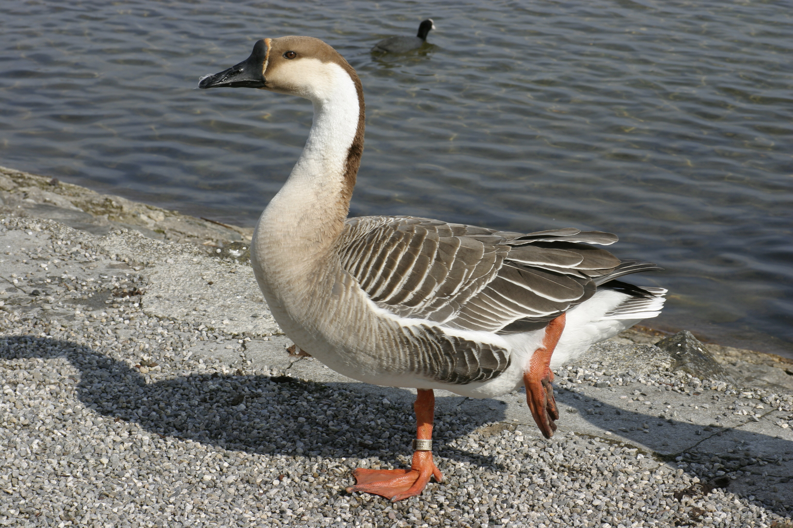 Anser cygnoides